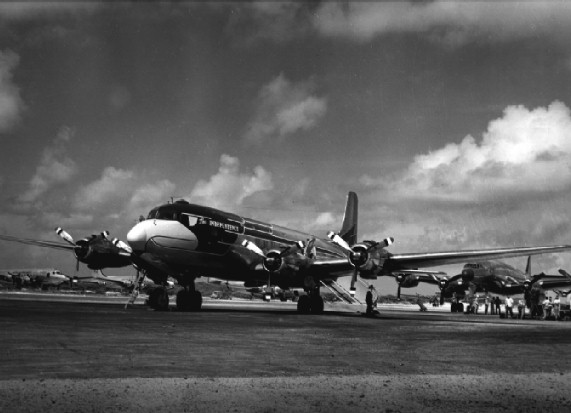 Photograph of President Harry S. Truman's airplane, a Douglas VC-118 (s/n 46-505) called "The Independence" on Wake Island on 15 October 1950. Truman went to Wake for a conference with General Douglas MacArthur whose plane is visible in the background. In 1947 USAAF officials ordered the 29th production DC-6 to be modified as a replacement for the aging Douglas VC-54C Skymaster "Sacred Cow" presidential aircraft. It differed from the standard DC-6 configuration in that the aft fuselage was converted into a stateroom. Also, the main cabin seated 24 passengers or could be made up into 12 "sleeper" berths. The VC-118 was formally commissioned by the USAAF on 4 July 1947, and was nicknamed "Independence" for Truman’s hometown in Missouri (USA). The aircraft is today in display at the National Museum of the USAF.